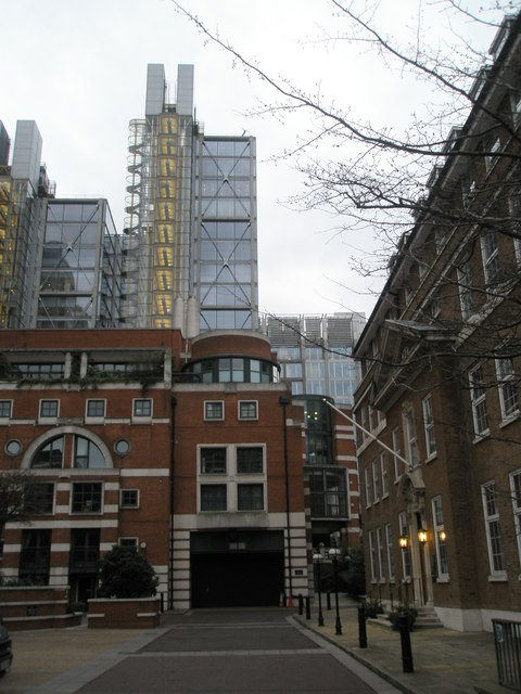 Monkwell Square On the right is the headquarters of The Worshipful Company of Barbers and Surgeons.